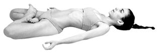 Uttara Padma Shavásana